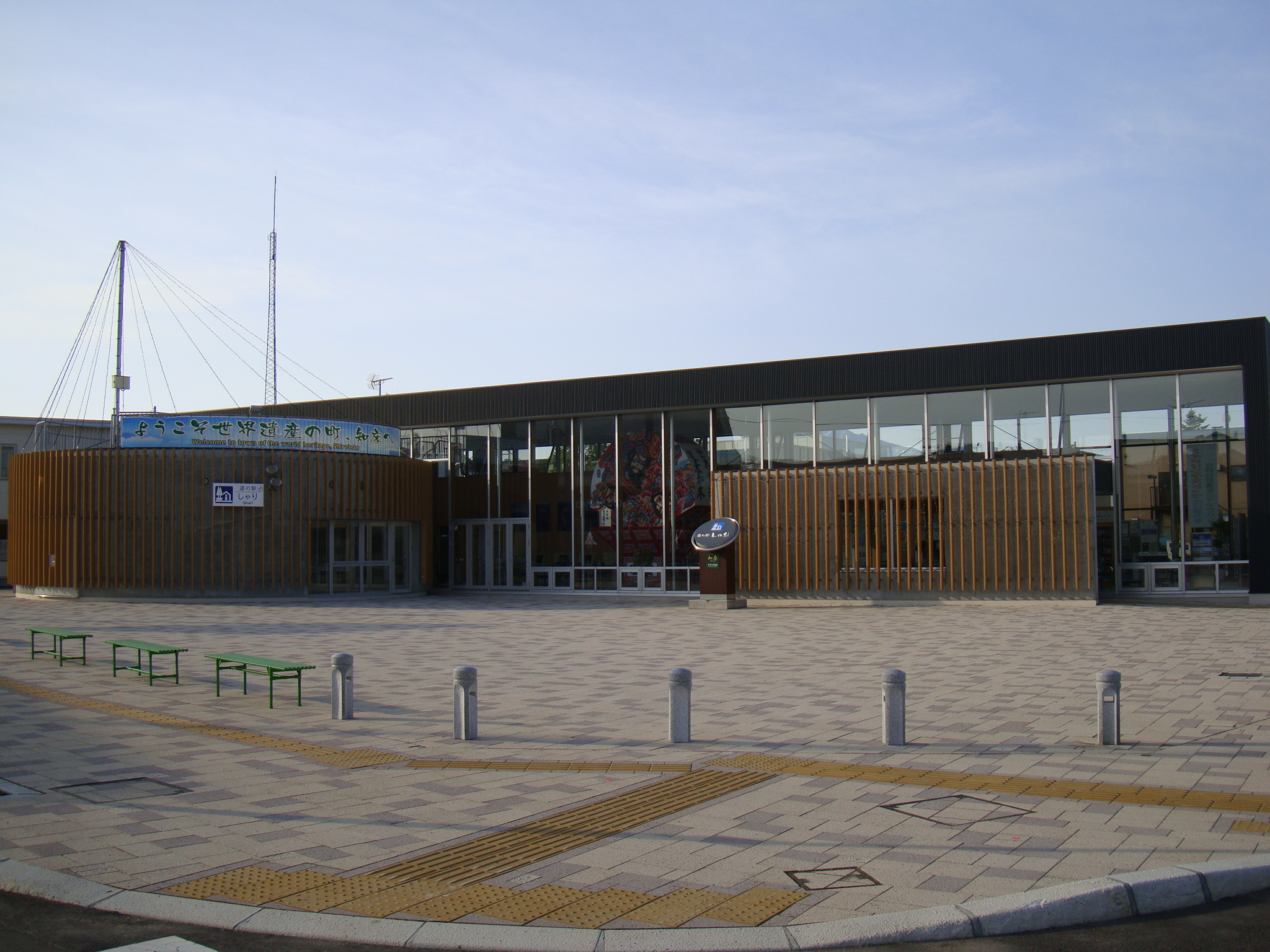 Roadside Station "Shari"